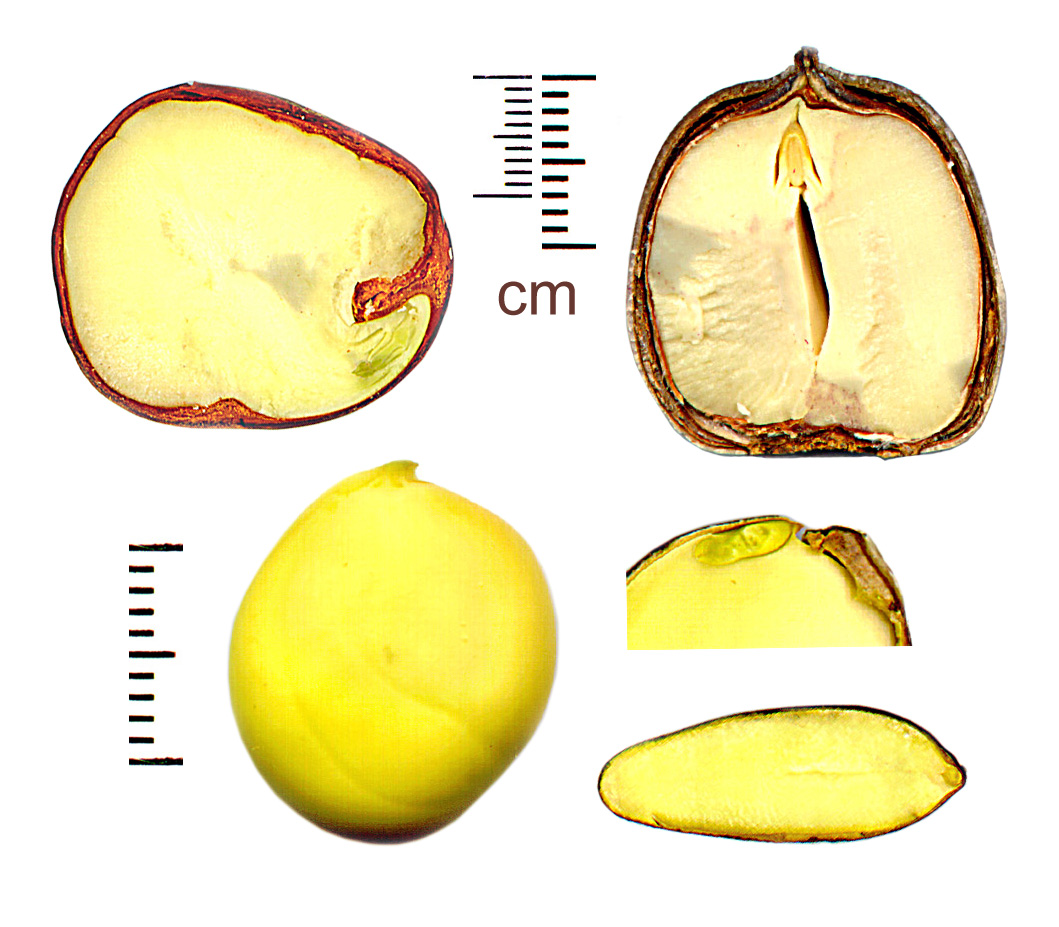 Cut of exalbuminous seeds with hypogeal germination of Aesculus hippocastanum, Quercus rubra, & Wisteria sinensis (photo: Mihailo Grbic)